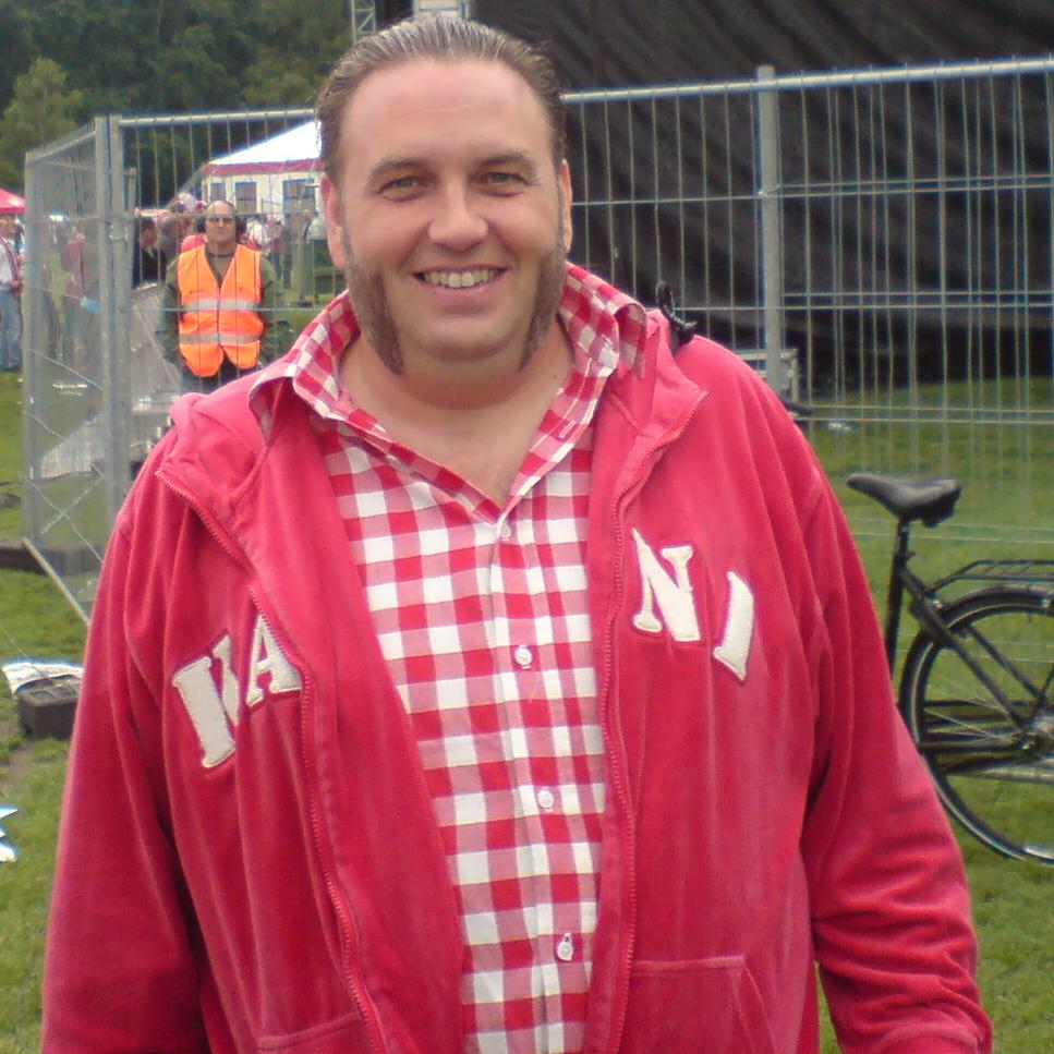 Danish multi artist Morten Lindberg aka. Master Fatman (cropped version)